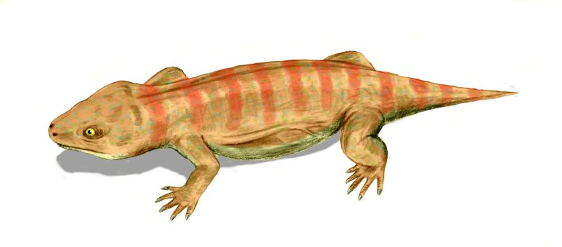 Procolophon trigoniceps, a procolophonid from the early Triassic of South Africa, pencil drawing